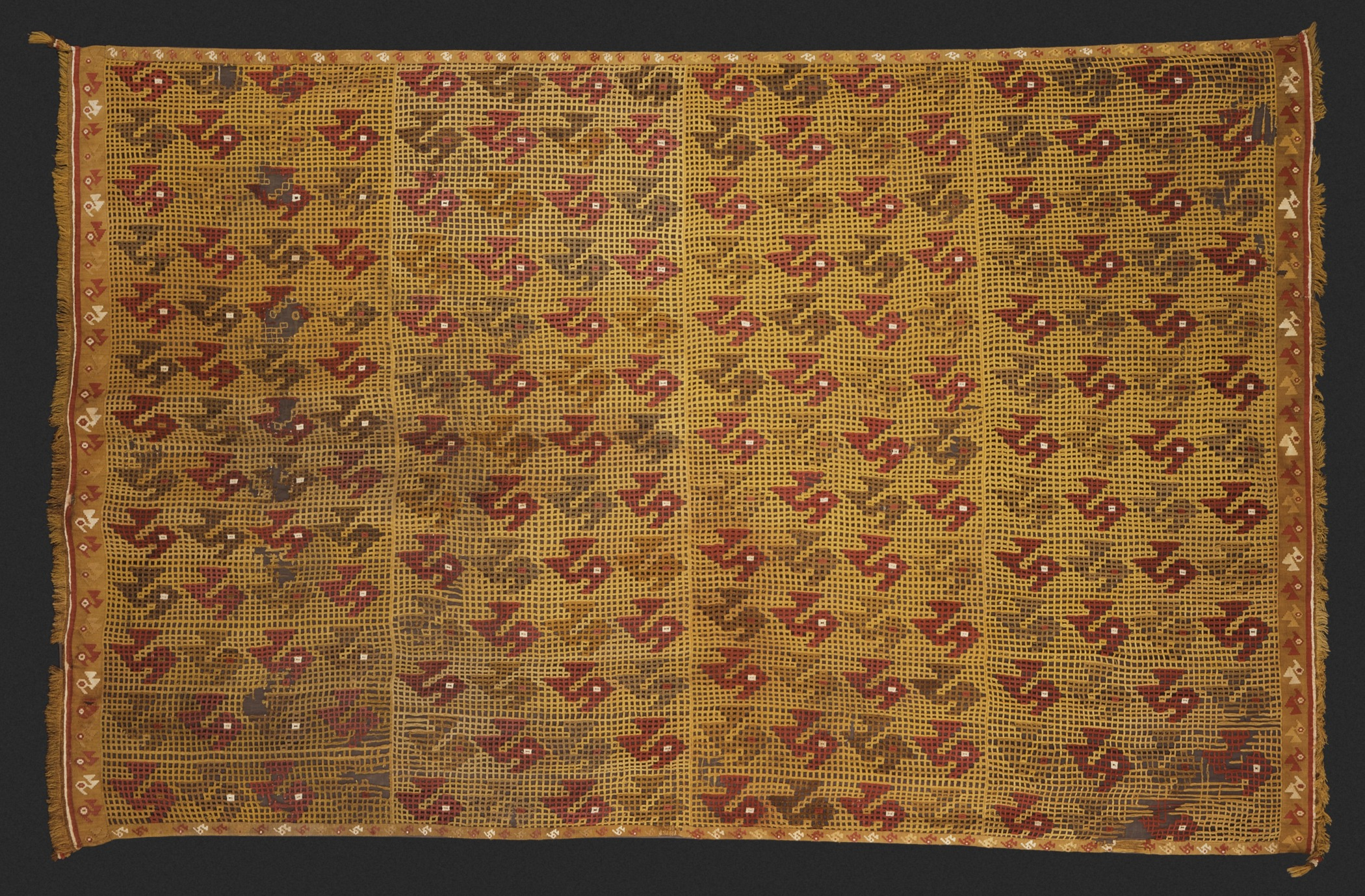 Peru, North Coast, Chimu, Late Intermediate, 1250-1350 Costumes Alpaca Wool; Camelid fiber and cotton; emobroidery on plain weave ground and tapestry weave L: 9' 2" x w: 6'4" (279.5 x 193.1 cm.) Gift of Mrs. Henry Salvatori (M.80.71.7) Costume and Textiles